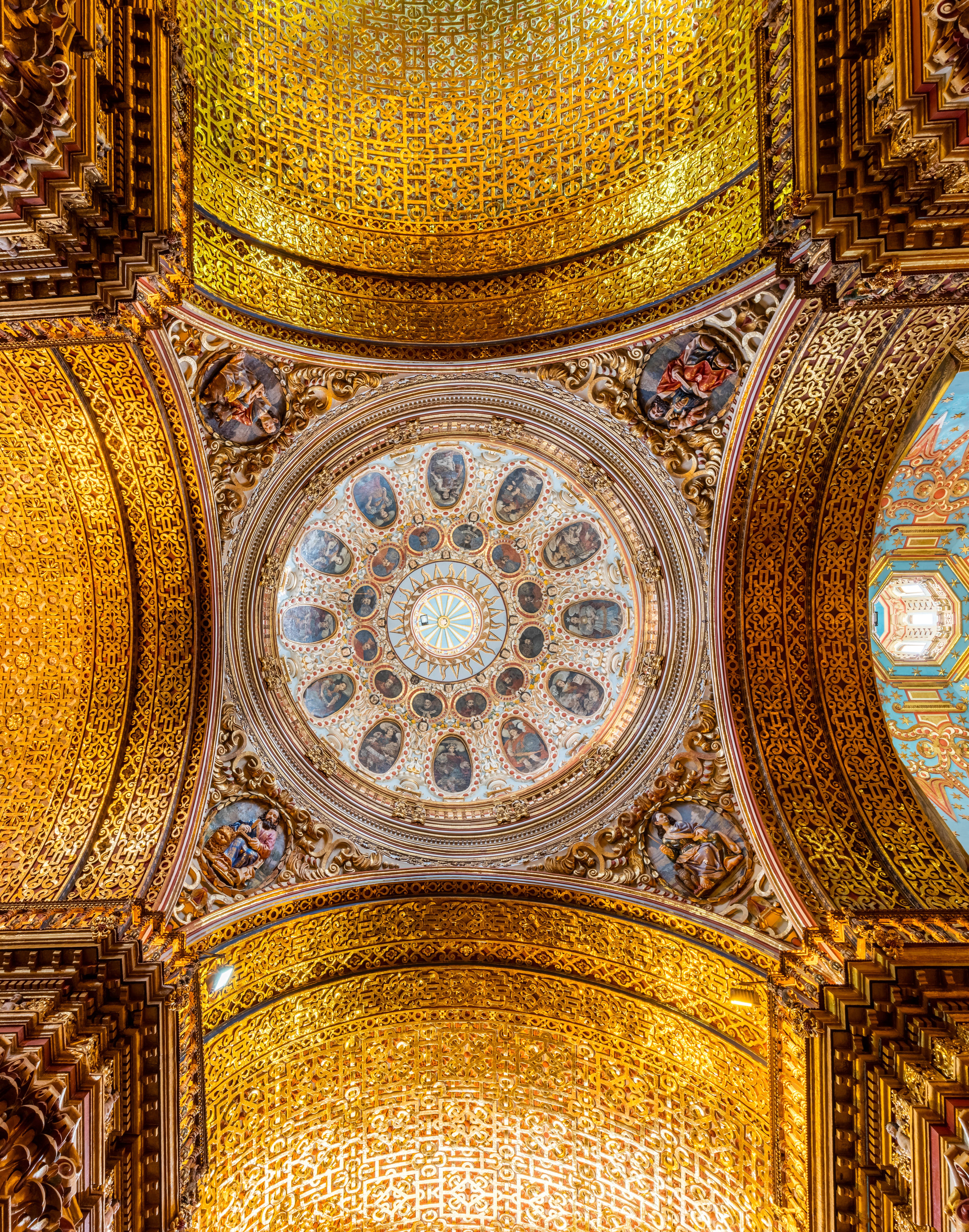 Church of the Society of Jesus, Quito, Ecuador